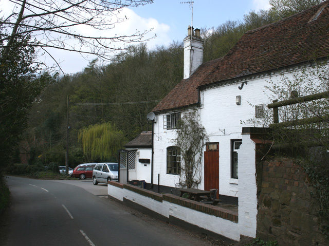 Vine Inn Edge of Clent village